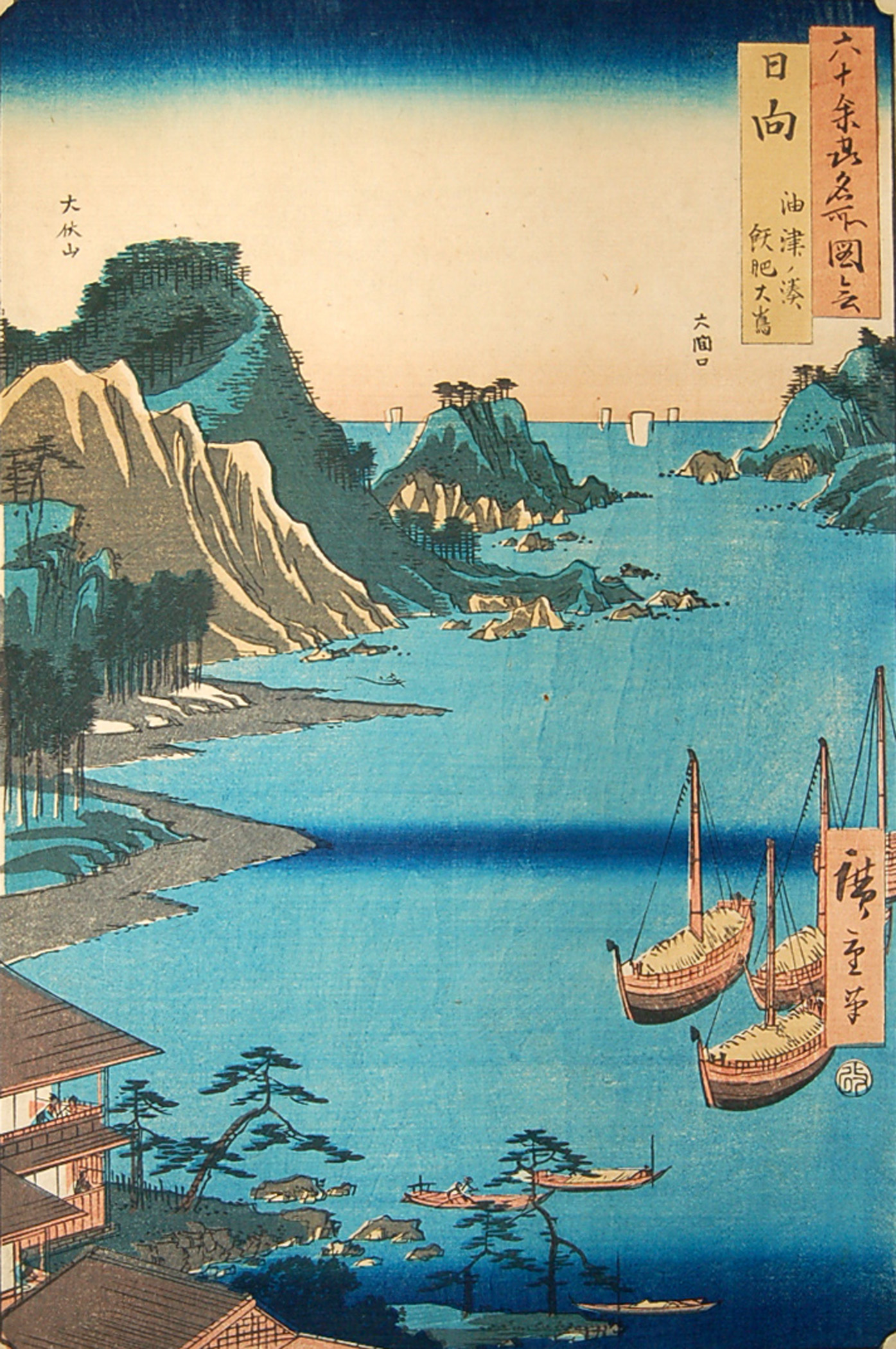 Hyūga Aburatsunominato Obiōshima of the Famous Scenes of the Sixty States.